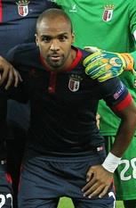 SHAKHTAR DONETSK VS. SPORTING BRAGA 2 - 0